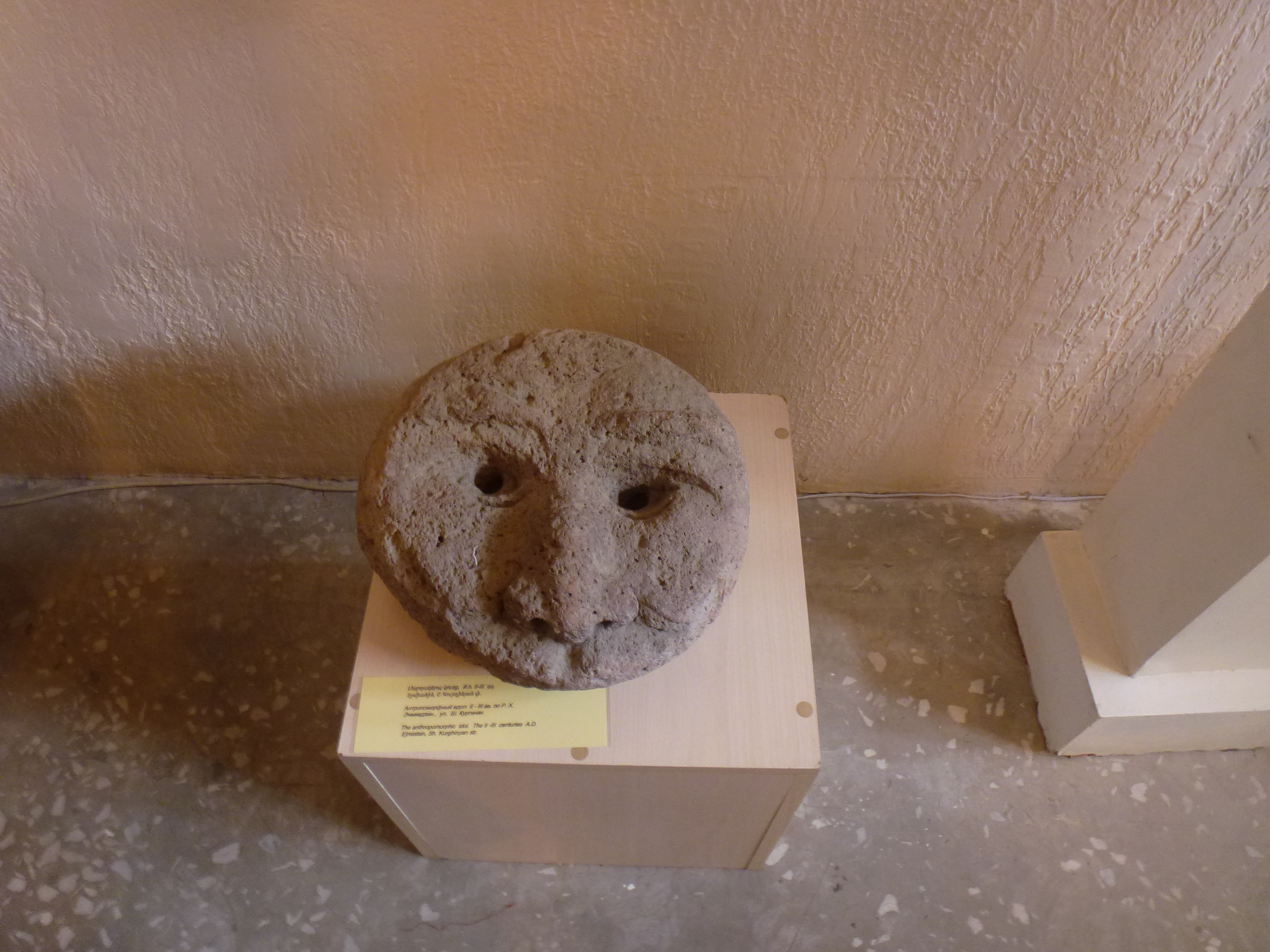 exhibit in Historical-Ethnographic museum of Armavir, Vagharshapat, Armenia